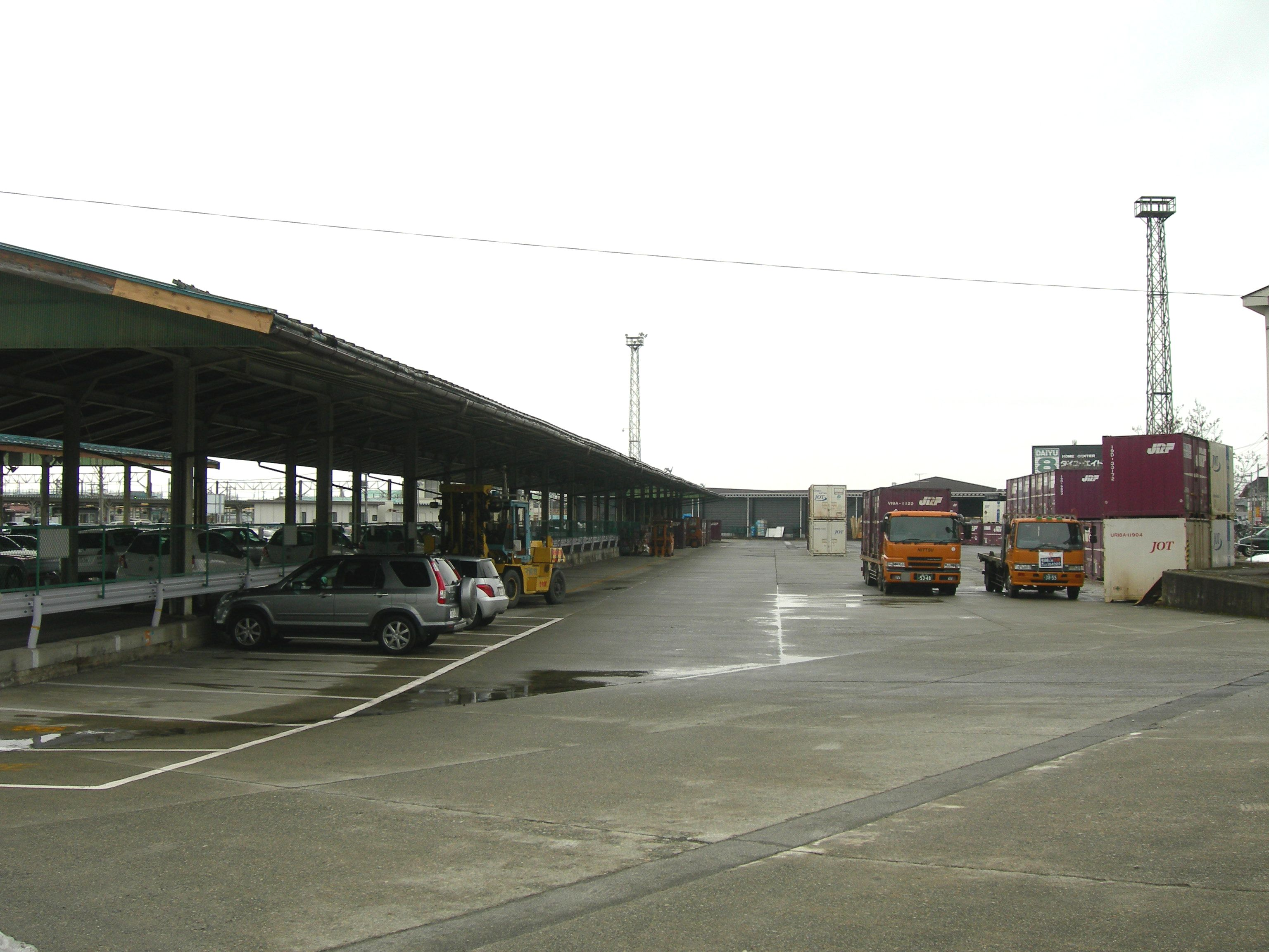 Aizu-Wakamatsu Off Rail Station